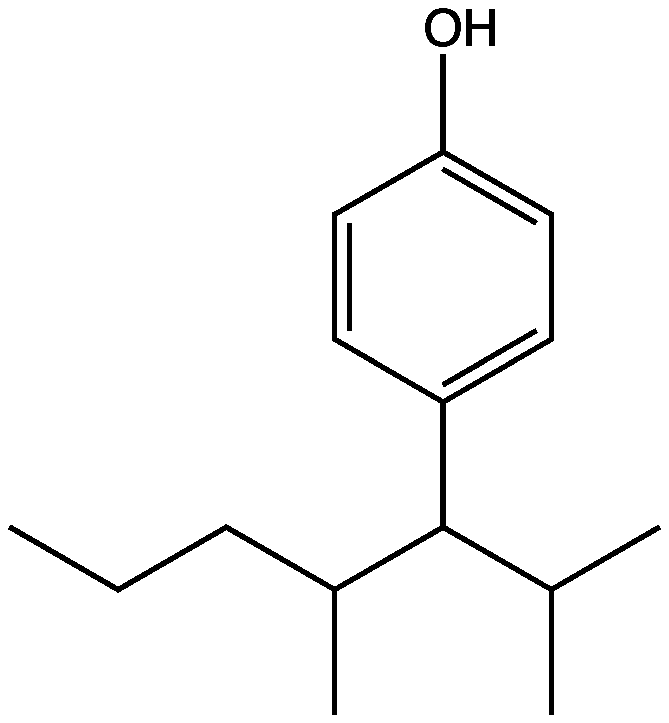 structure of industrial nonylphenol